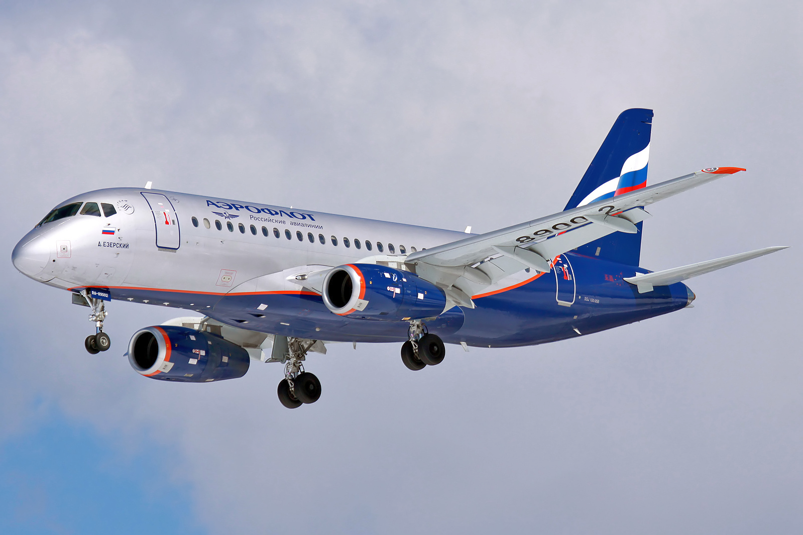 An Aeroflot - Russian Airlines Sukhoi Superjet 100-95 on short final to Sheremetyevo Airport (SVO / UUDD)